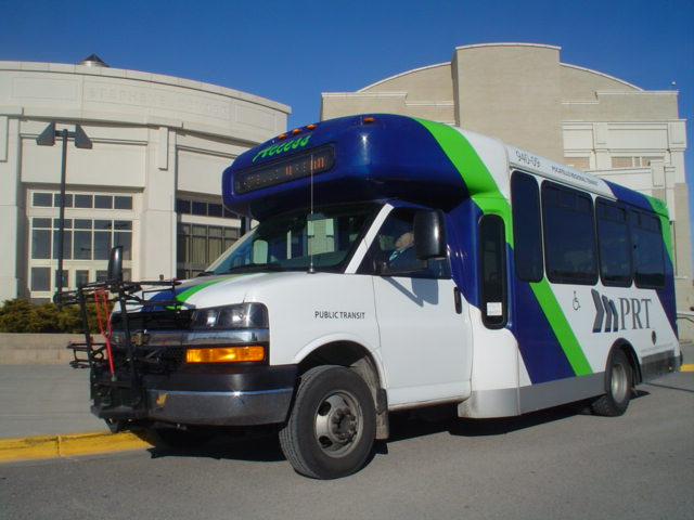 Pocatello Regional Transit "Paratransit Bus"